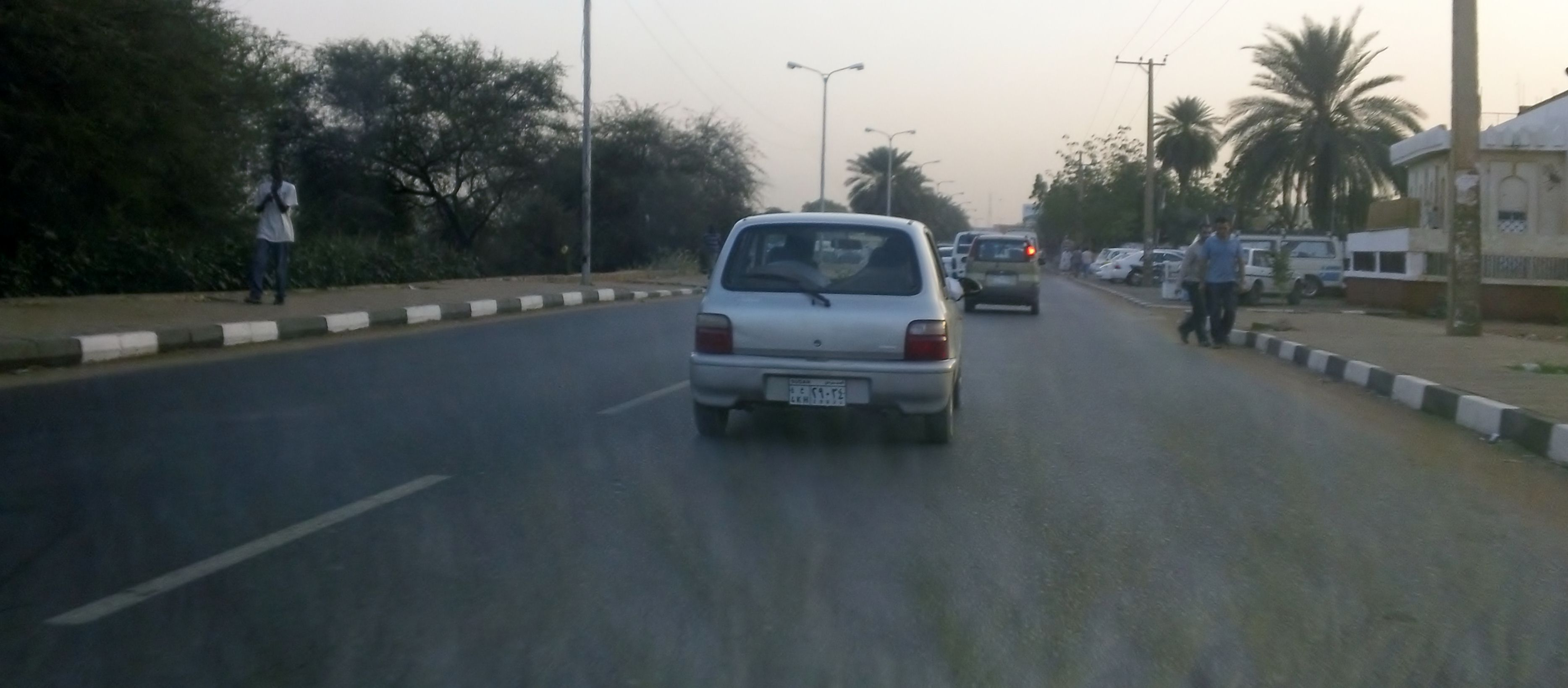 شارع النيل دار الفنانين – أم درمان – السودان